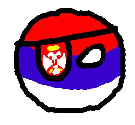 Serbiaball